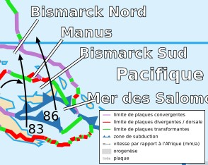 Map of the Manus Plate